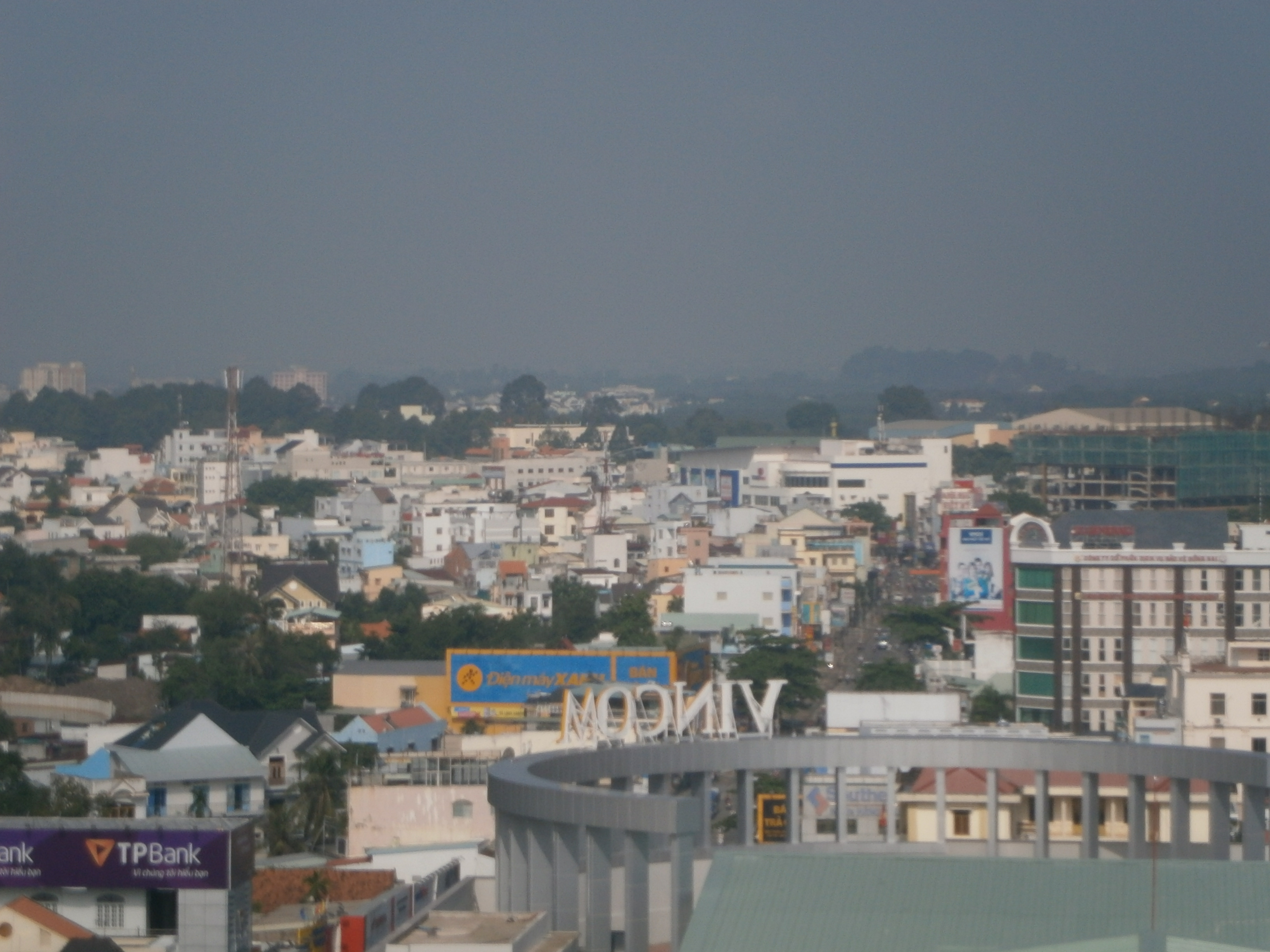 View of Bien Hoa from high floor Aurora Hotel